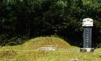 Tomb of General Pakj jin, Korean Joseon Dynusty's General